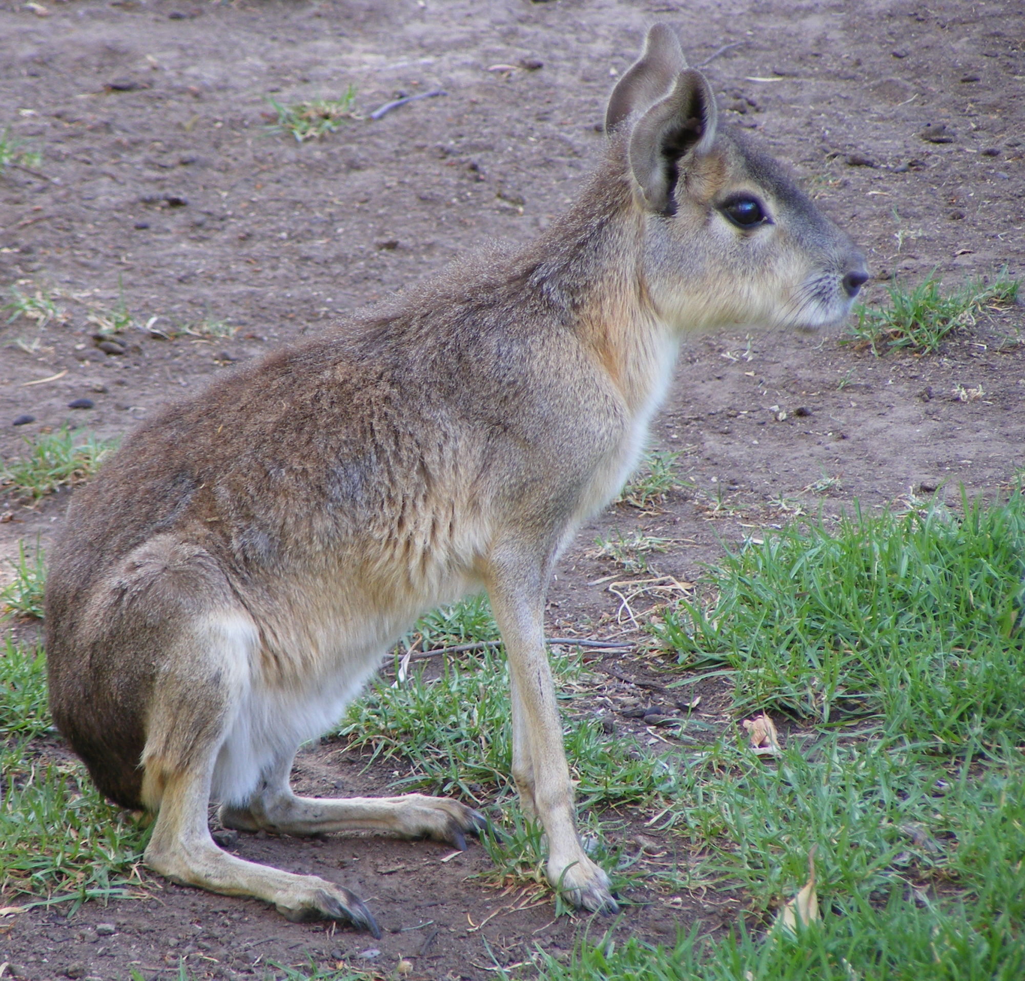 Patagonian Cavy (Dolichotis patagonum) at the Adelaide Zoo, South Australia